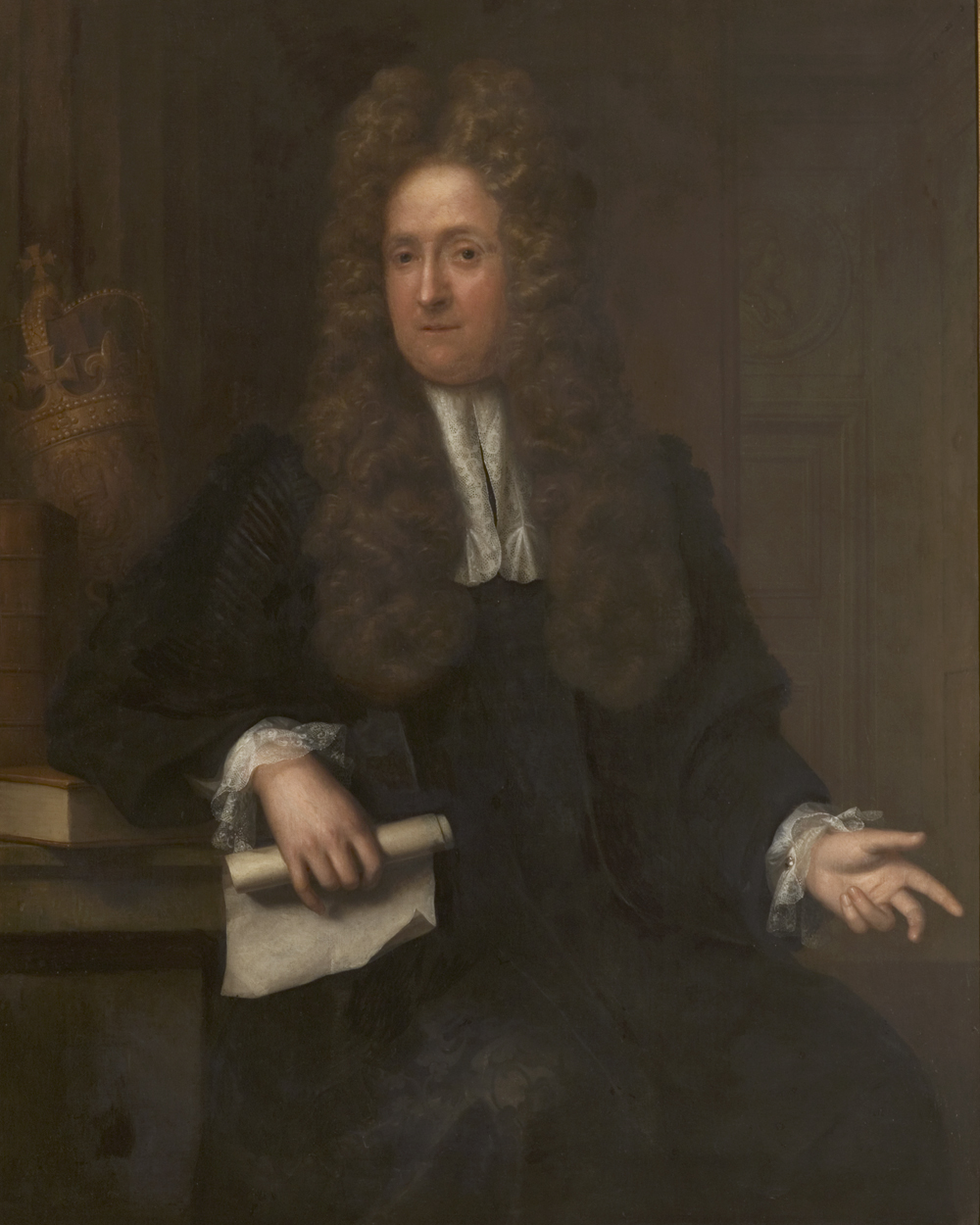 Portrait of Midleton as Lord Chancellor of Ireland; the ceremonial mace of his office can be seen behind him.